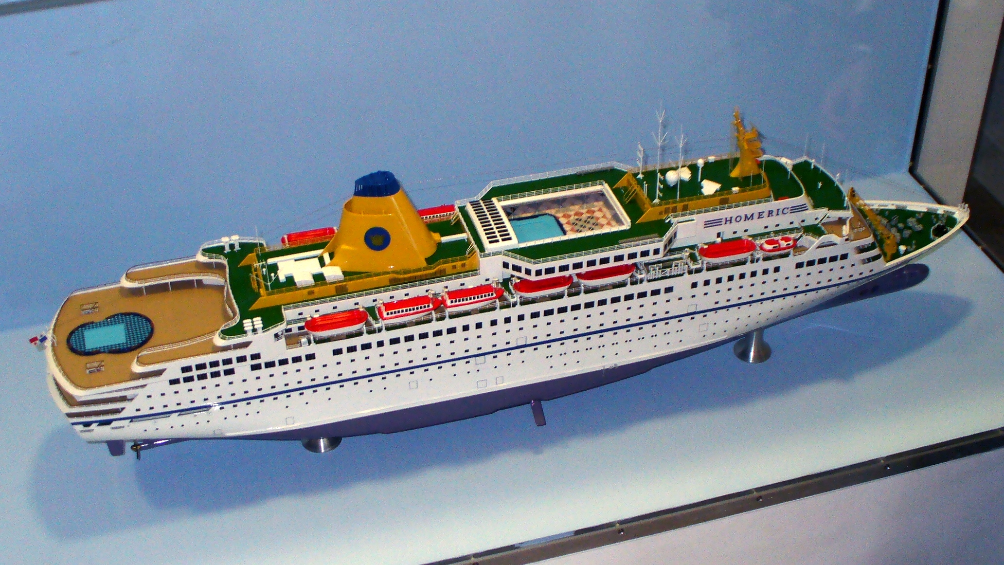 A ship model of the HOMERIC, located at the Papenburger Werftsmuseum